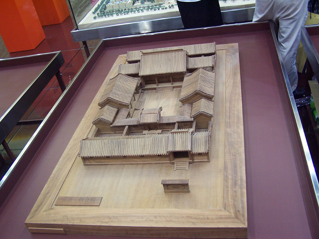 A model of a Siheyuan - a traditional Chinese courtyard house.